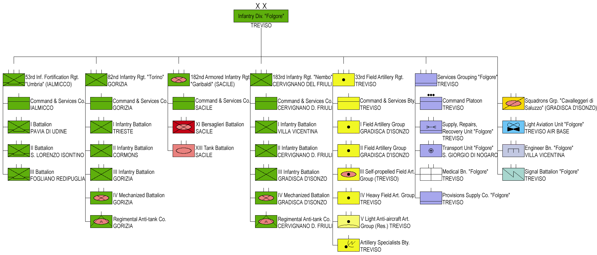 Structure of the Italian Army Infantry Division "Folgore" in 1974